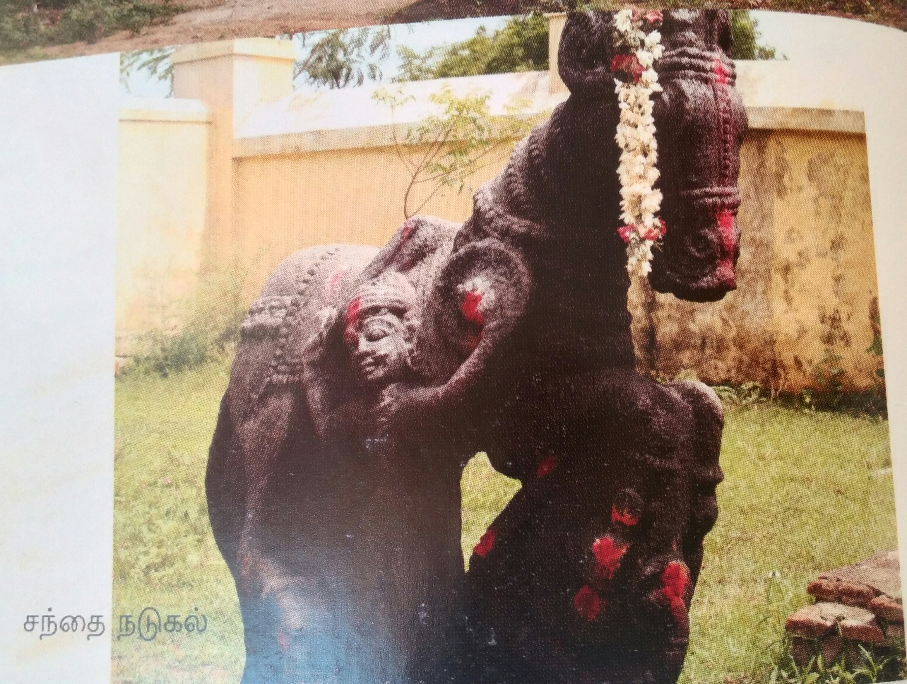 Tiruvannamalai events